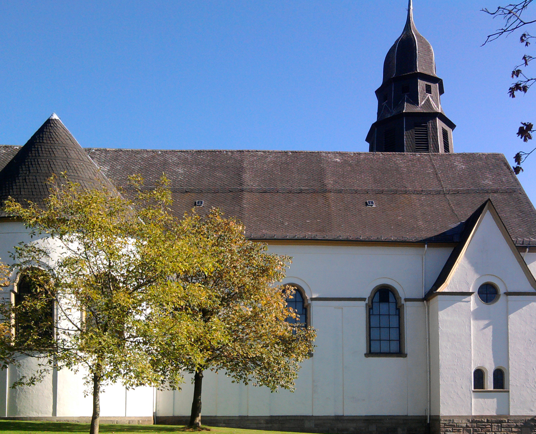 Exterior of the roman catholic church in Güdesweiler, Saarland